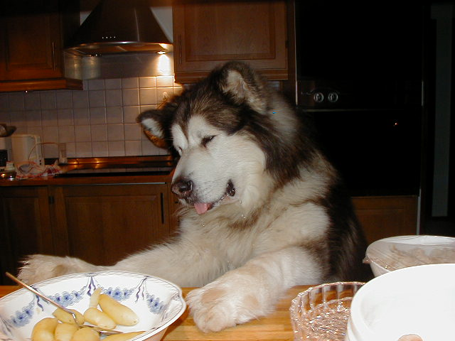 Own photo (author of danish wiki-article on Alaskan Malamute)